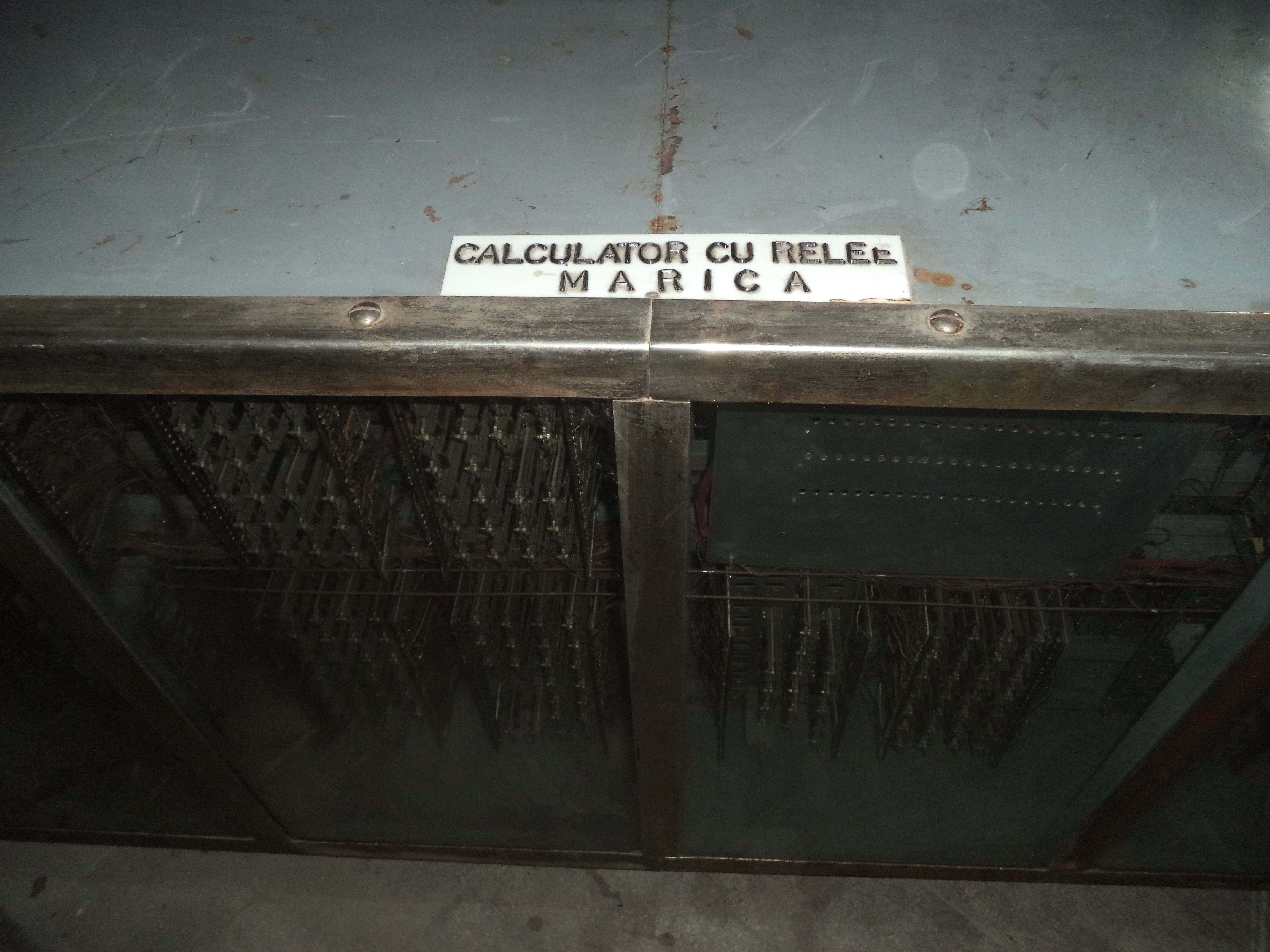 Sigla Calculatorului cu Relee Electromagnetice MARICA